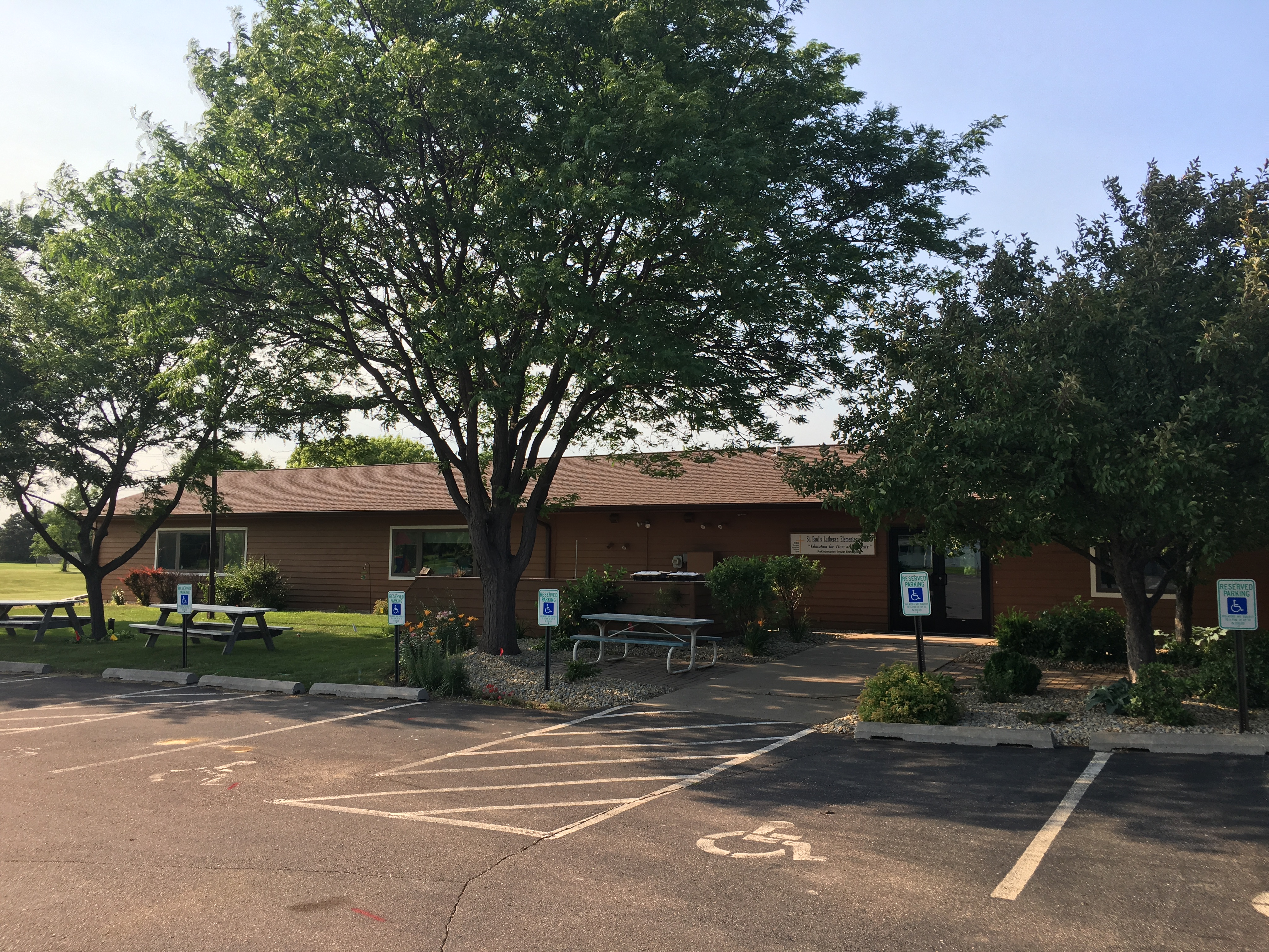 St. Paul's Lutheran School in Cannon Falls, MN